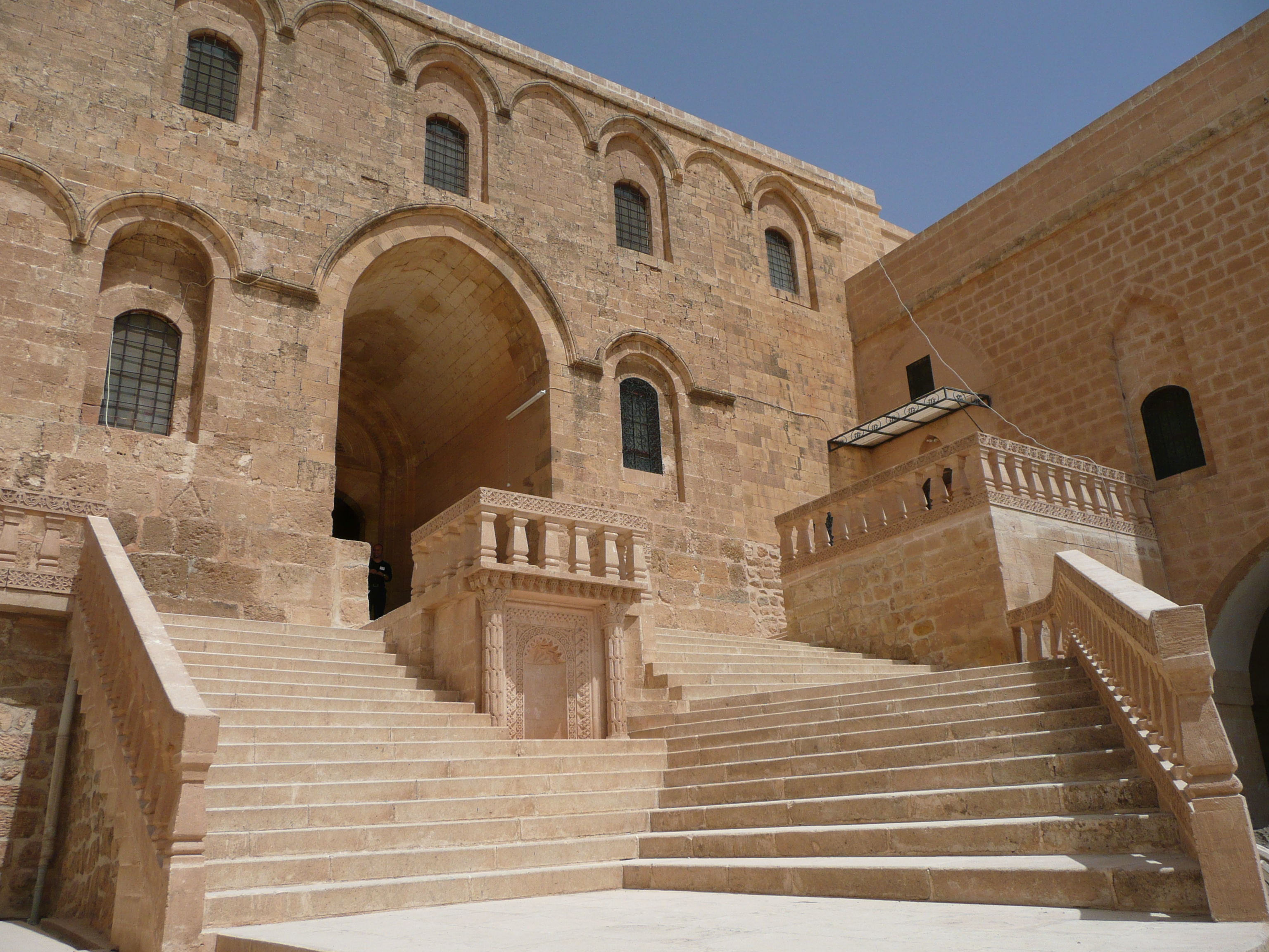 Photographs from Deyrulzaferan Monastry, Mardin, Turkey